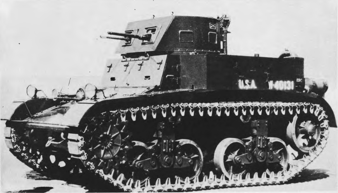 The Combat Car, M1, a U.S. Army light tank that was introduced in 1935 and entered service in 1937. It was used by the Army's cavalry branch and was designated as a "combat car" to circumvent a law which restricted tanks to the infantry. It was armed only with machine guns.